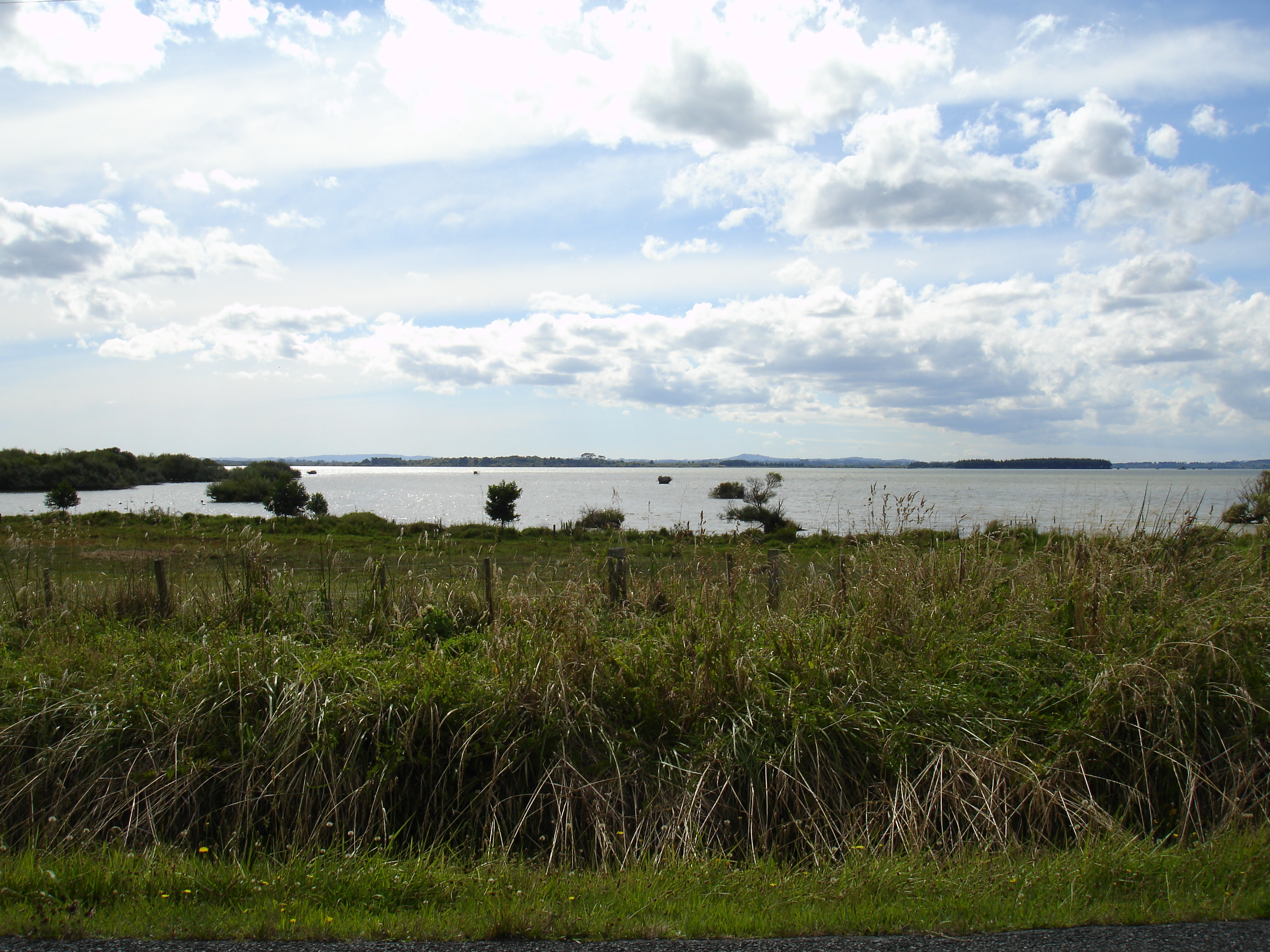 View of the south-eastern side of the lake from Waikere Road.